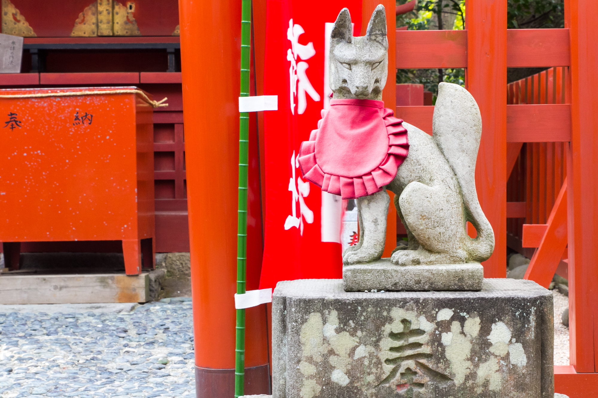 Inari shrine at Tsurugaoka Hachiman-gū, Kamakura, Japan